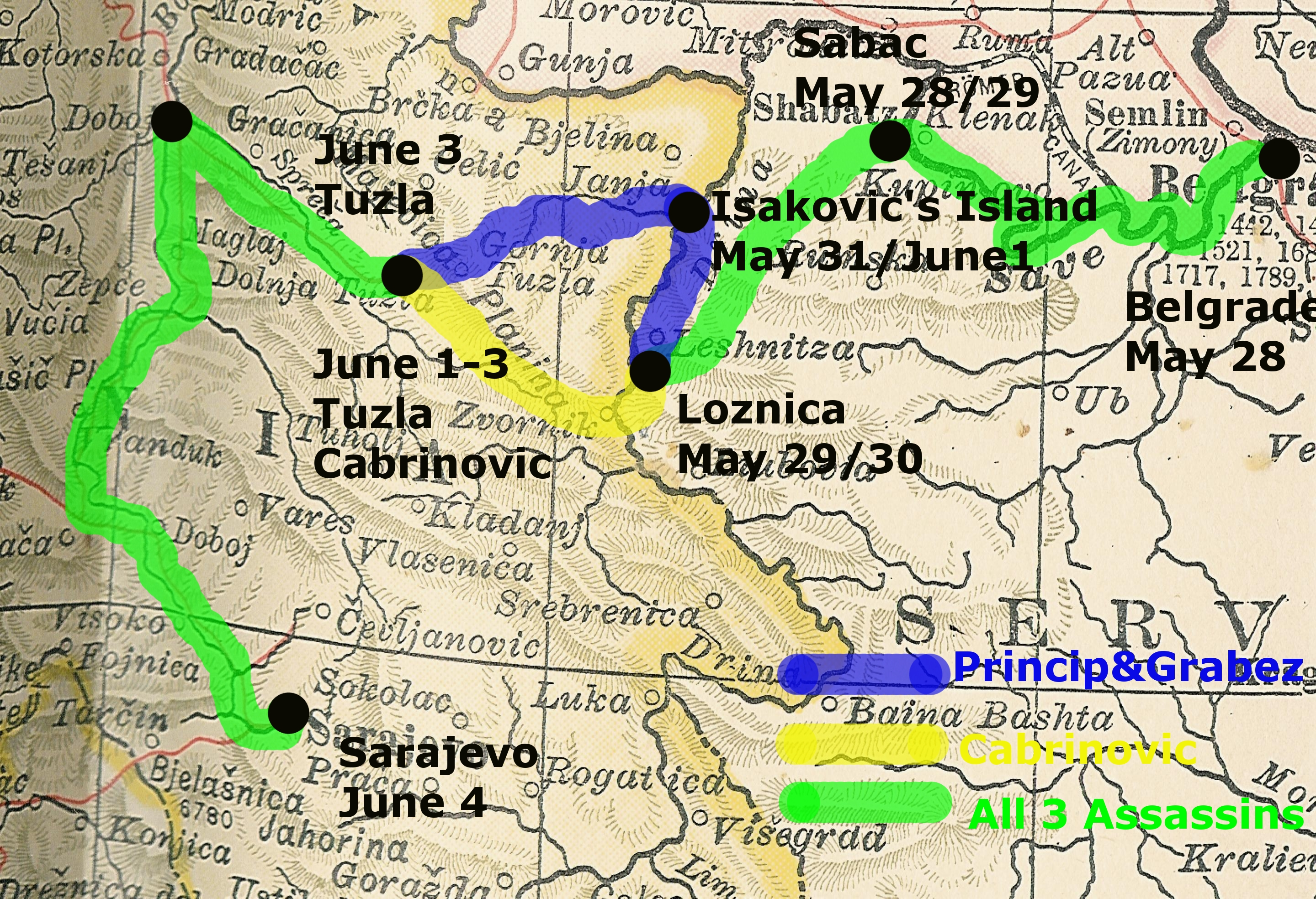 Map showing the route of the assassins to Sarajevo, May-June 1914.